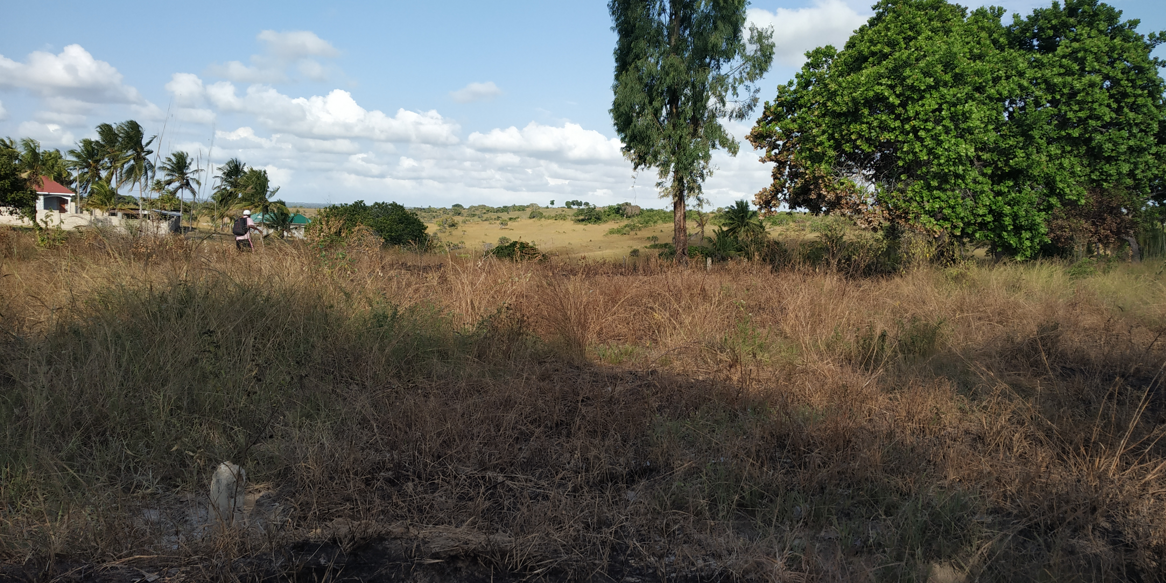 Beautiful scenery at kisarawe 2, temeke, dar es salaam